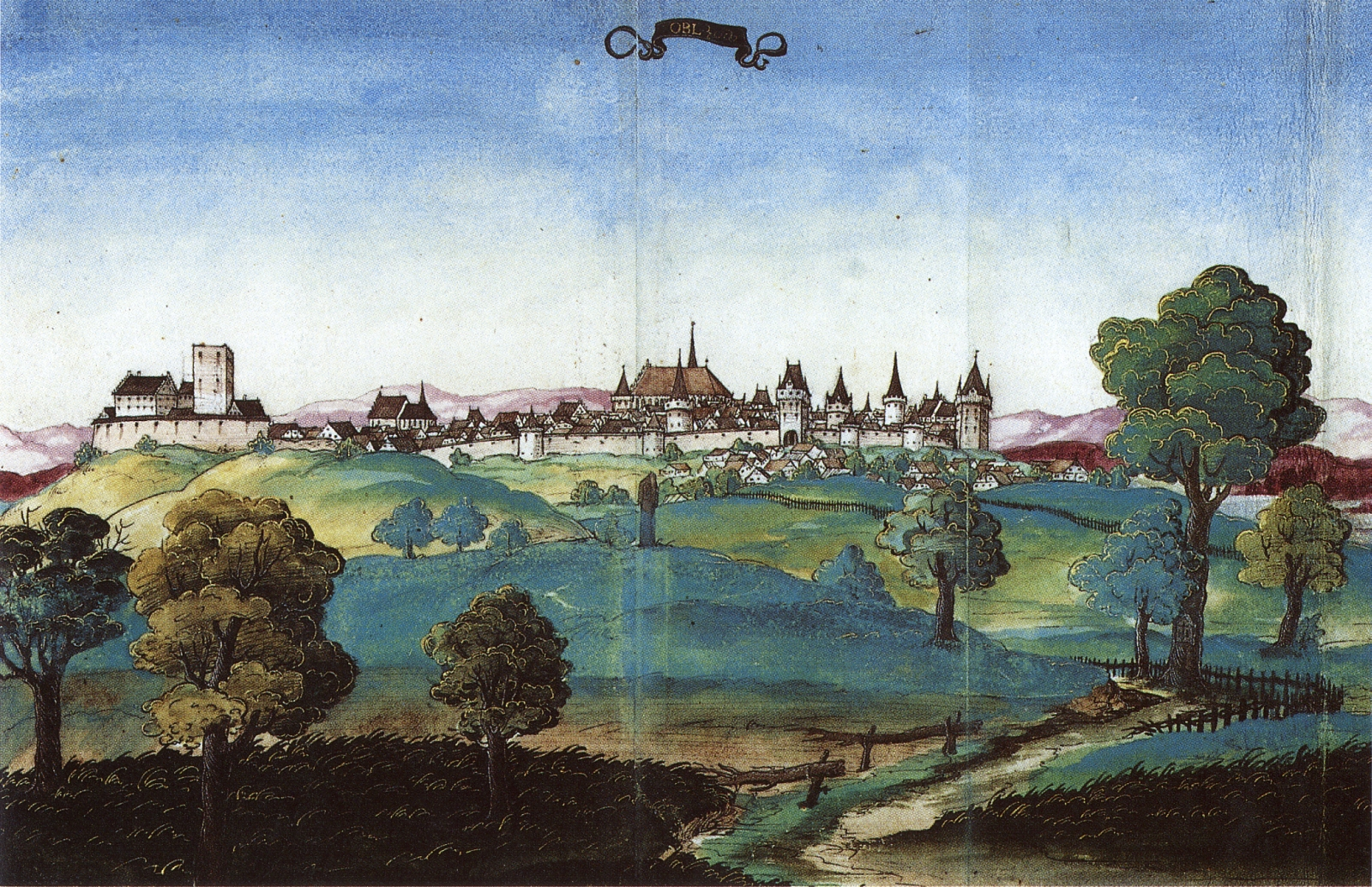 Oldest known general view of the city of Oppeln/Opole, seen from southeast